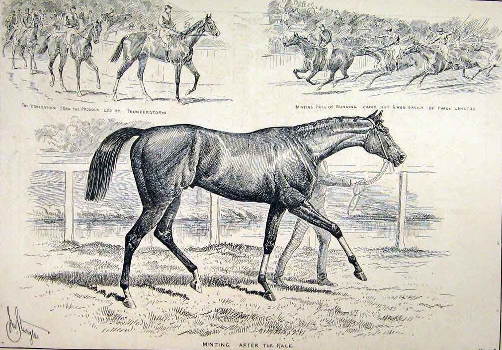 Etching of the English racehorse Minting, before, during and after his win at Kempton in 1888